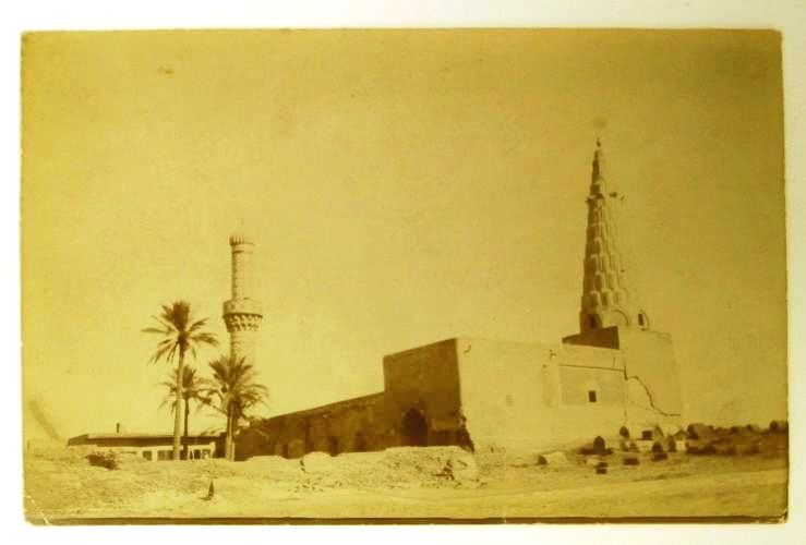 Omar's Tomb, Baghdad, Iraq, World War I, 1917-1919